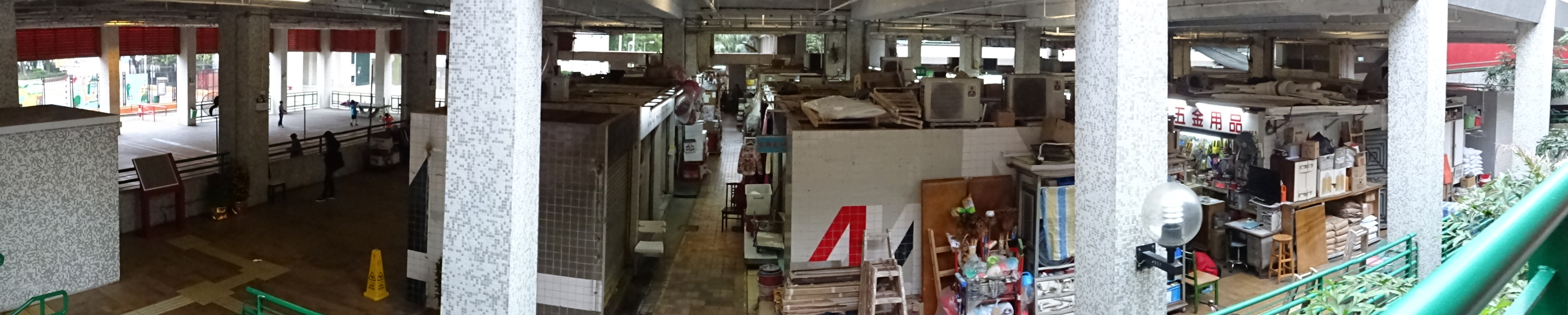 Siu Hei Market in Tuen Mun, Hong Kong.